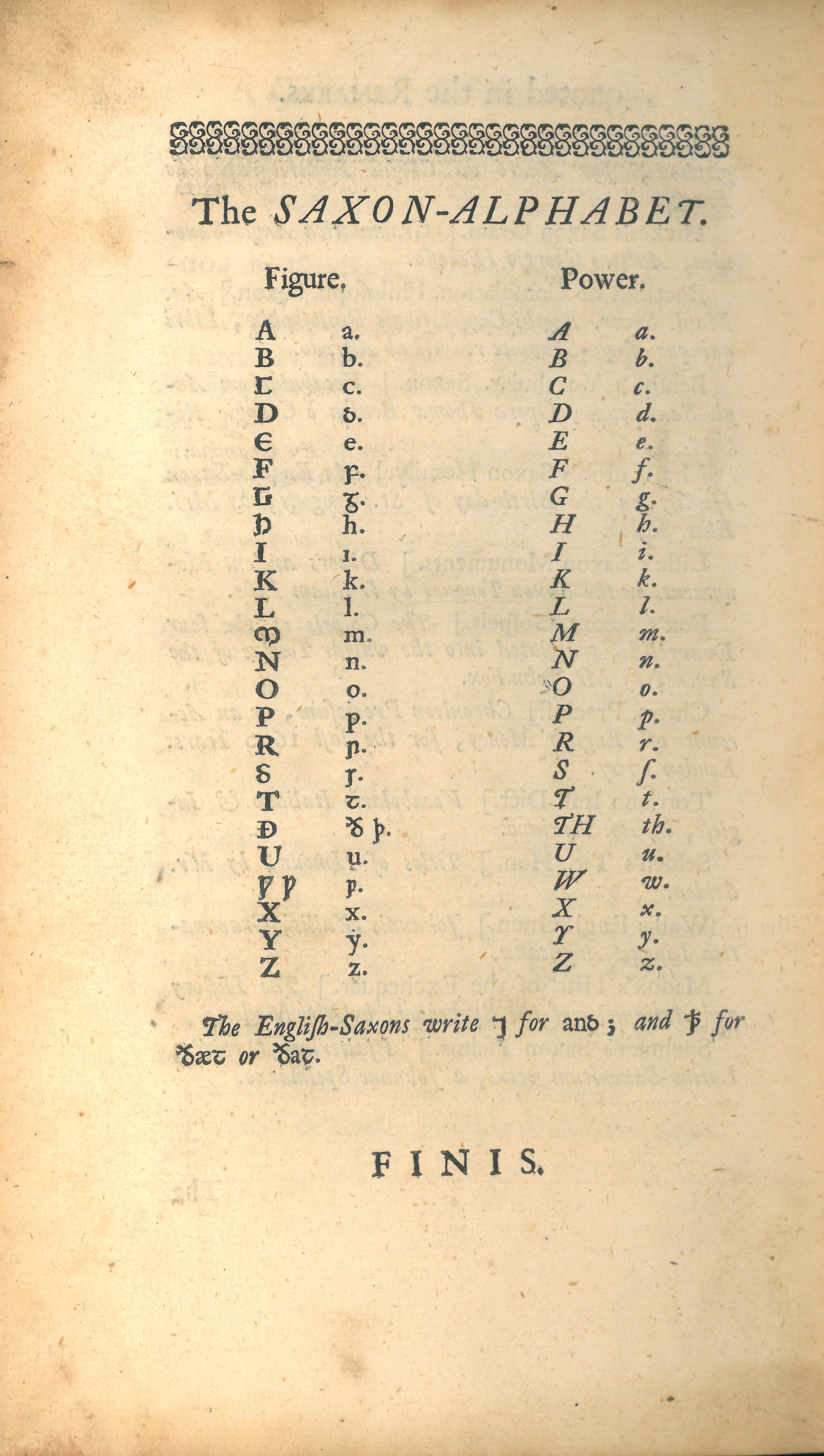 A table entitled "The Saxon-Alphabet" on the last page of John Fortescue (1714) The Difference between an Absolute and Limited Monarchy: As it More Particularly Regards the English Constitution. Being a Treatise Written by Sir John Fortescue, Kt. Lord Chief Justice, and Lord High Chancellor of England, under King Henry VI. Faithfully Transcribed from the MS. Copy in the Bodleian Library, and Collated with Three Other MSS. Publish'd with some Remarks by John Fortescue-Aland, of the Inner-Temple, Esq; F.R.S. (1st ed.), London: John Fortescue Aland; printed by W[illiam] Bowyer in White-Fryars, for E. Parker at the Bible and Crown in Lombard-Street, and T. Ward in the Inner-Temple-Lane OCLC: 642421515. The first column ("Figure") of the table shows the letters of the Old English Latin alphabet, and the second column ("Power") their modern equivalents.